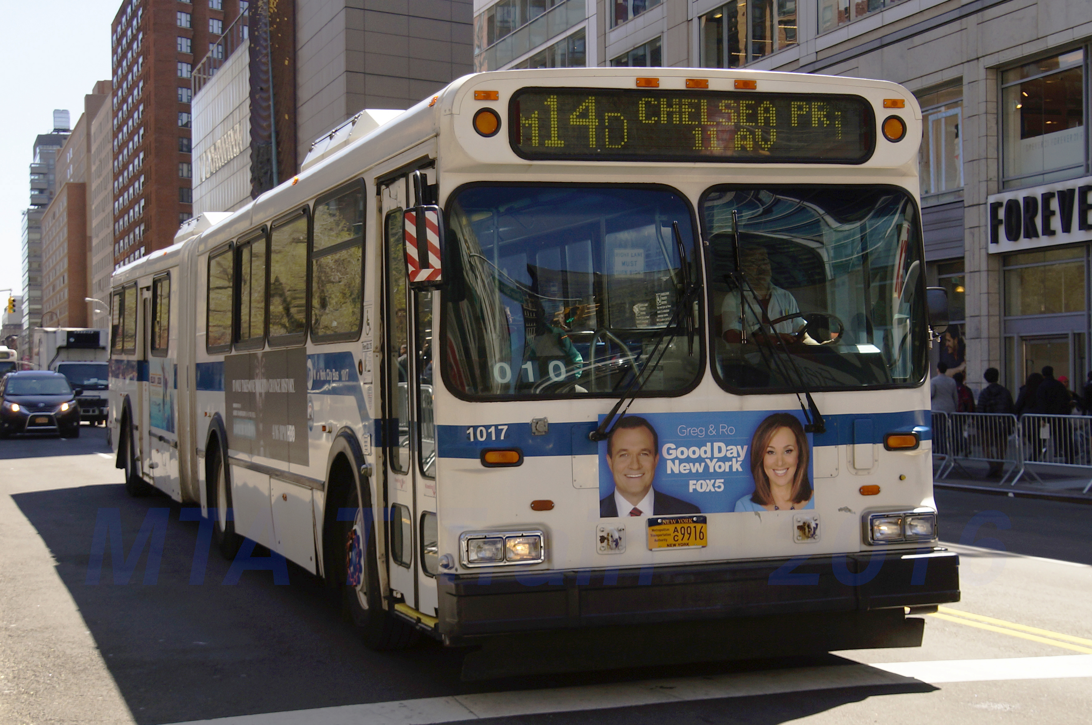 MTA NYC New Flyer Industries D60 1017 M14D bus on 14th St.